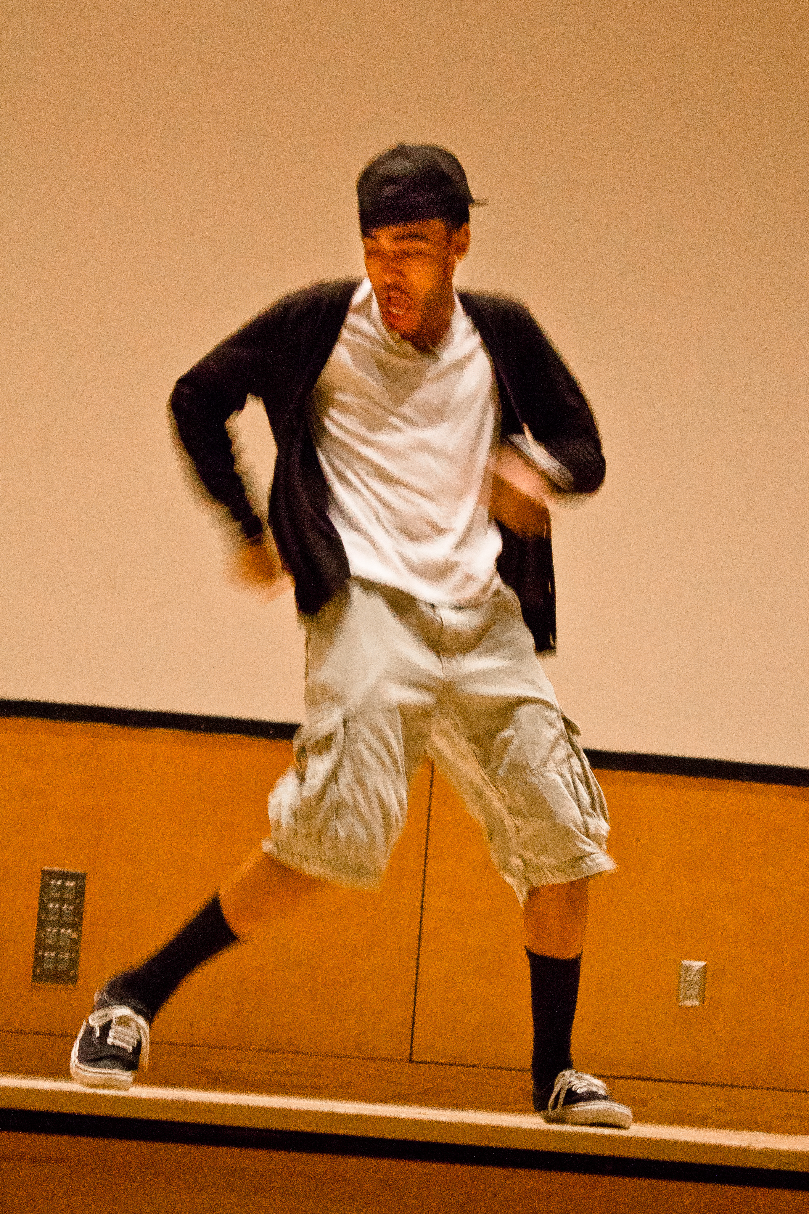 PUSO Dance Crew (PDC) at the 1st Annual D3 SO YOU THINK YOU CAN SAYAW!, Stony Brook University. Stony Brook, NY. Described as "...cat daddy while you dougie".